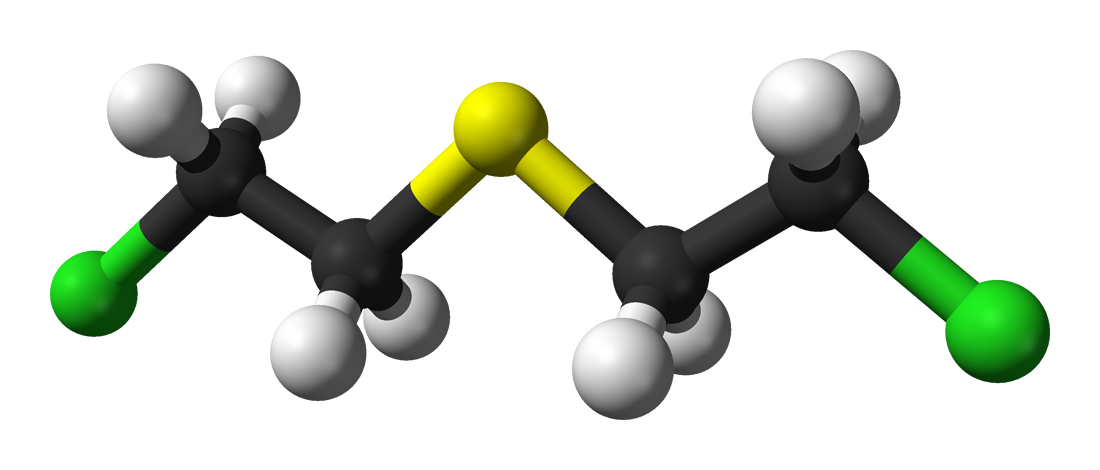 Ball-and-stick model of the sulfur mustard molecule